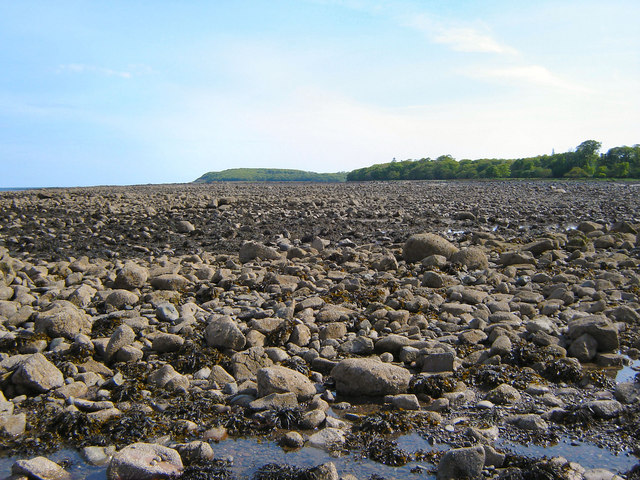 Low Tide at Garlieston Breakwater At low tide the view from the very tip of Garlieston Breakwater is almost like a moonscape.